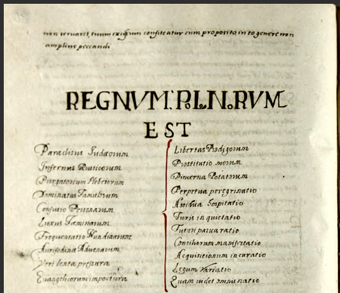 earliest recorded version of Heaven for the nobles, Purgatory for the townspeople, Hell for the peasants, and Paradise for the Jews